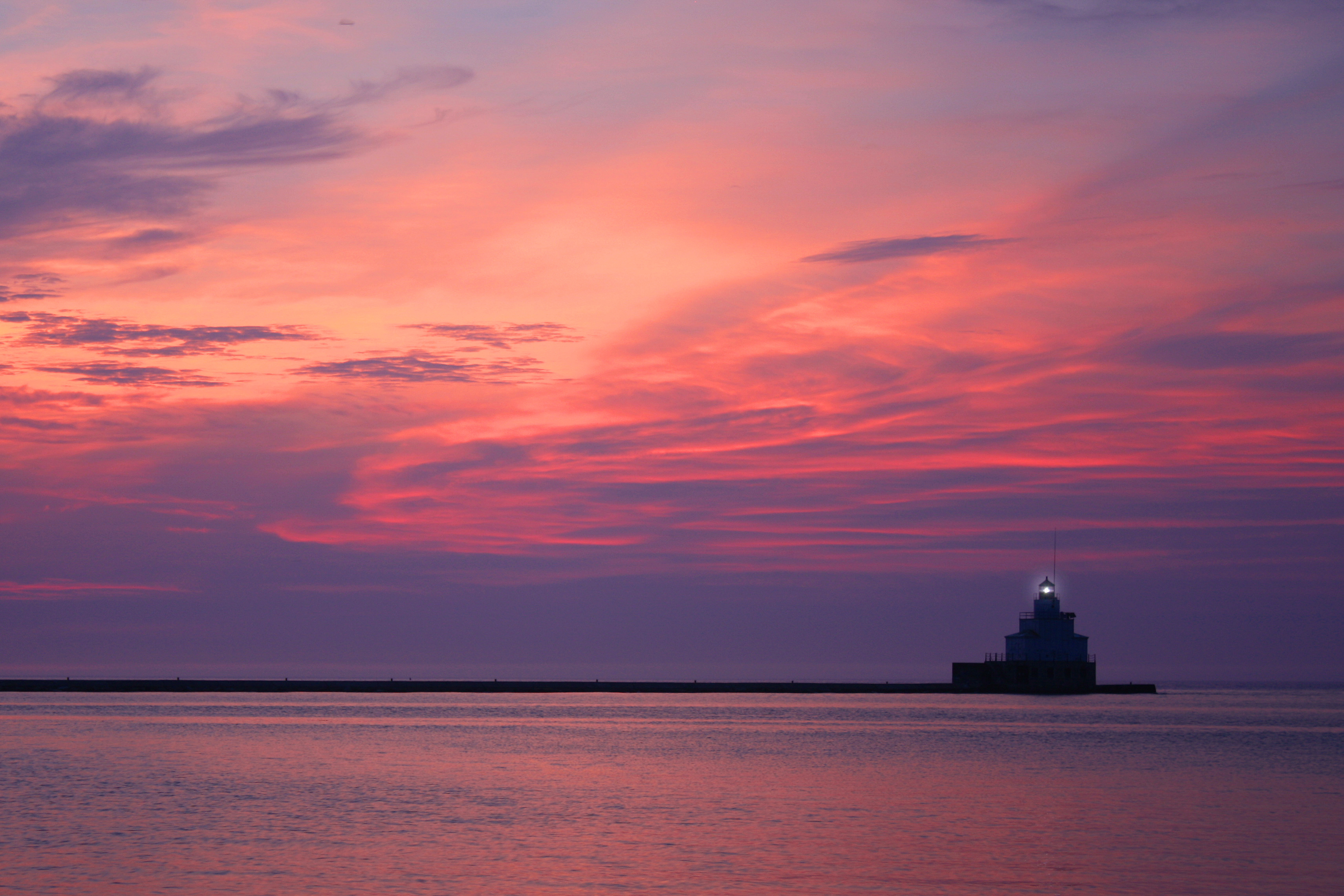 This is the north pier lighthouse in Manitowoc, WI